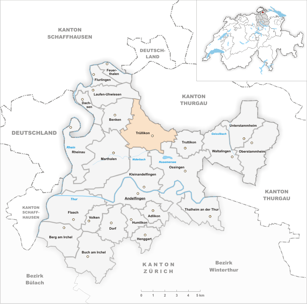 Municipality Trüllikon